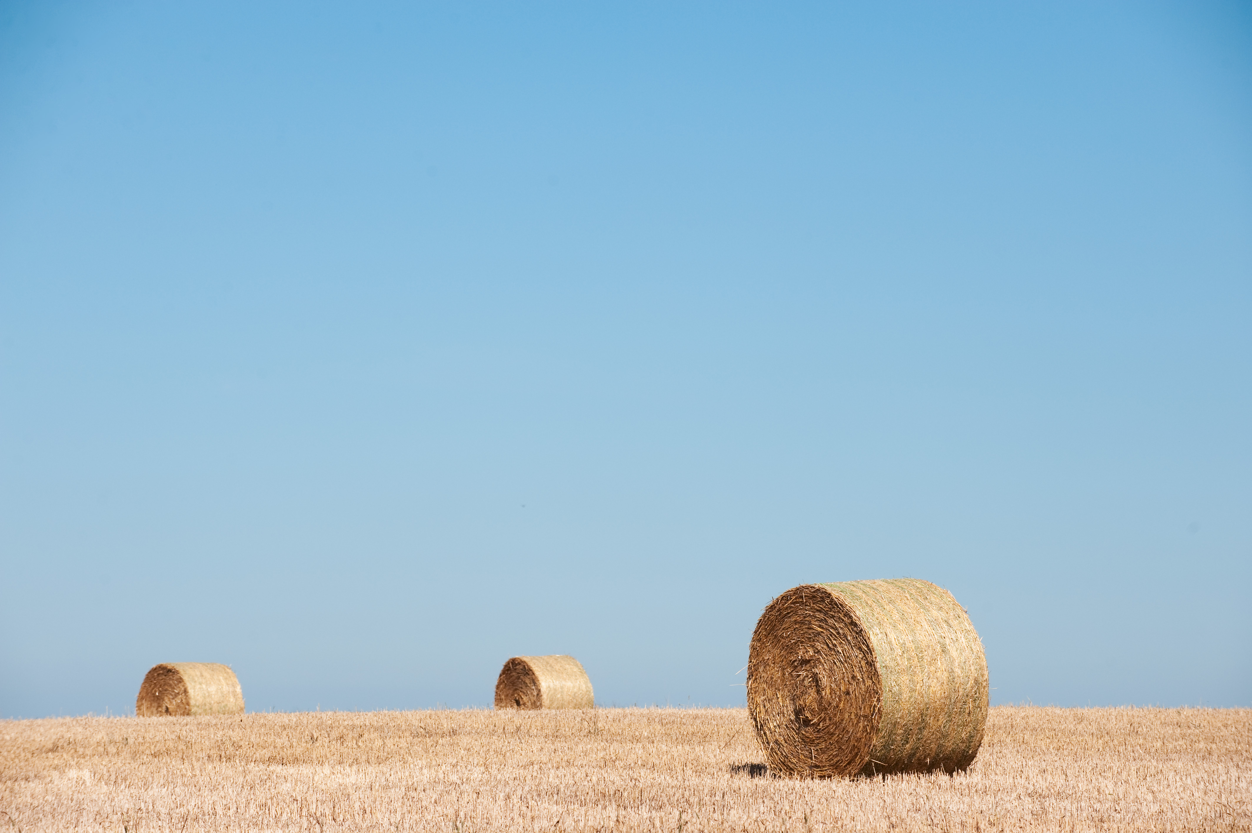 Åker i Skåne Sverige Keywords: Agriculture and Forestry